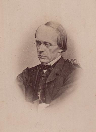 Artist: unknown Date/place: unknown Subject: Halvdan Kjerulf Medium: photographic positive, B&W Notes: none Persistent URL: [#//nettbiblioteket.no/grieg-samlingen/engelsk/grieg_intro_eng.html? Original belongs to the Edvard Grieg Archives at Bergen Public Library]